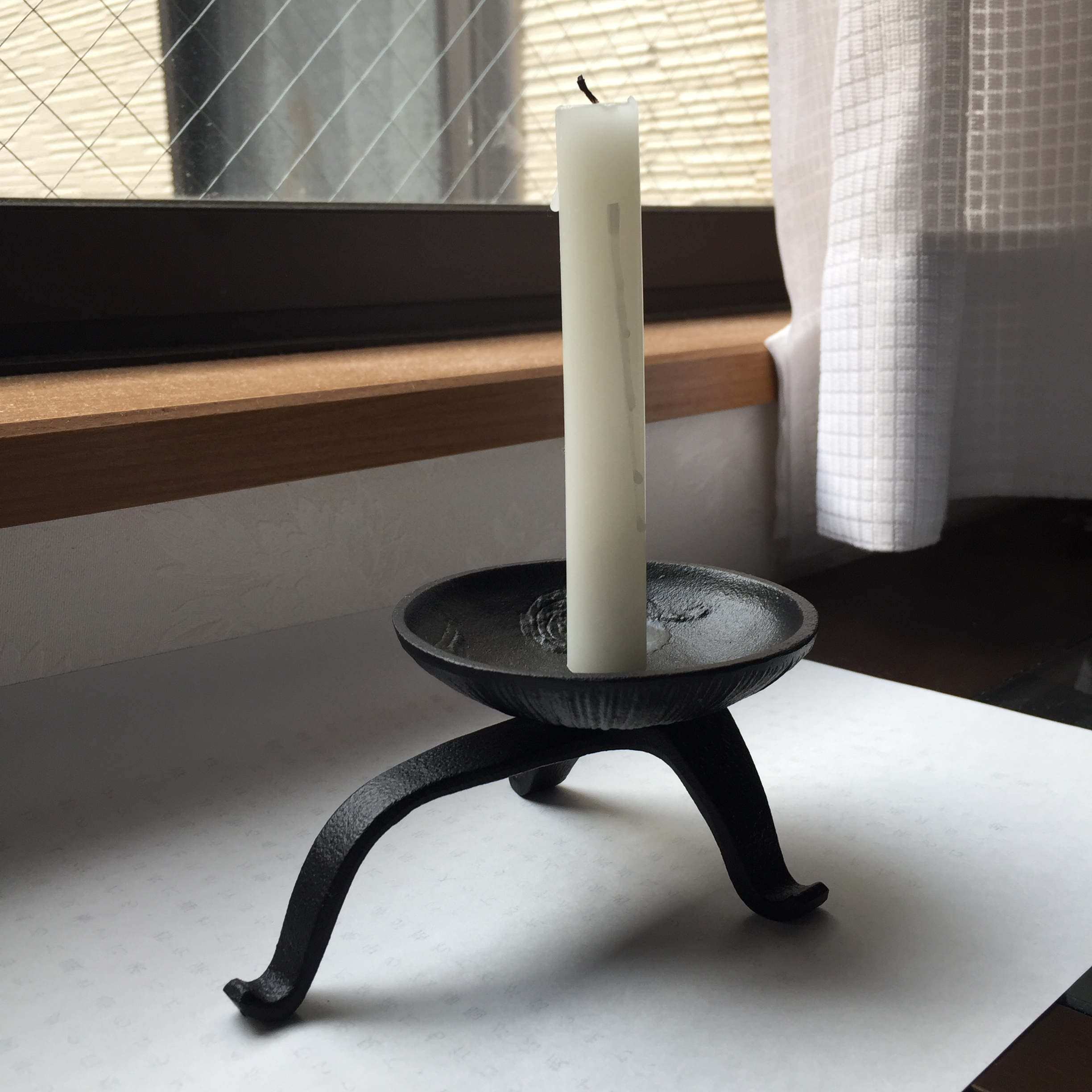 A Japanese candle stand made of iron in Iwate prefecture.A kind of "Nambu Tekki(or Nambu Ironware)"s.